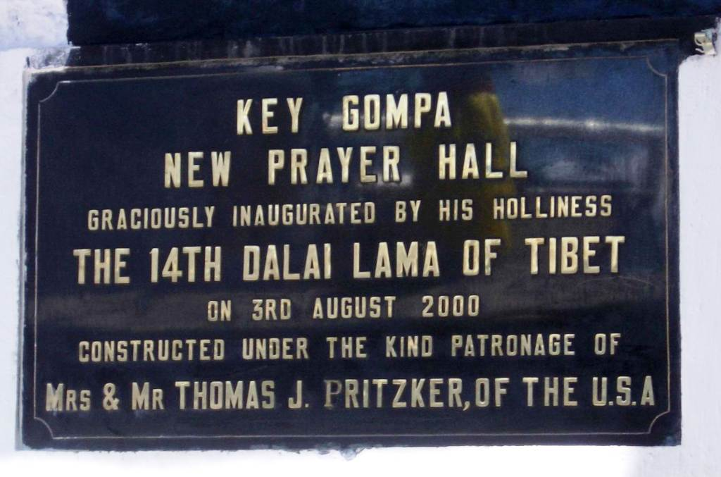 I took this photo myself while I was staying at Key Monastery in 2004